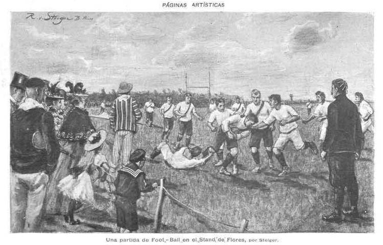 "Foot-Ball" at Flores Old Ground of Buenos Aires. This form of "football" is more related to rugby union.